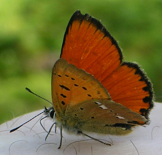 Scarce copper (Lycaena virgaureae), picture taken at Mullitztall/Prägraten at the Großvenediger at about 2.000 m.